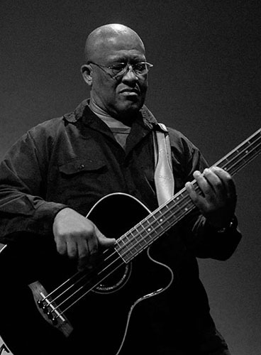 A photograph of Henry Oden performing in 2010